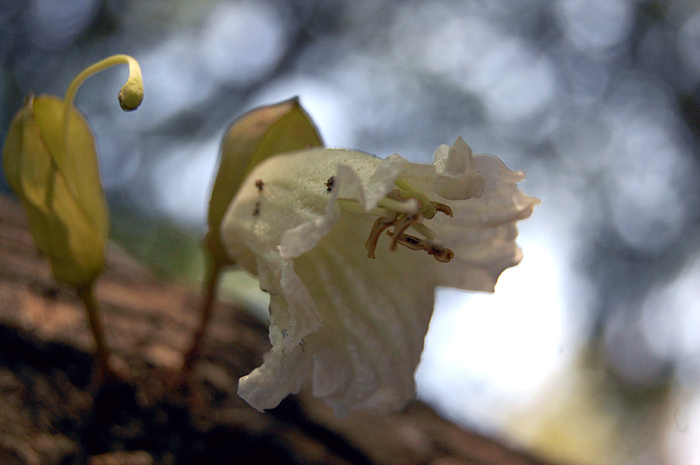 A flower of Parmentiera cereifera